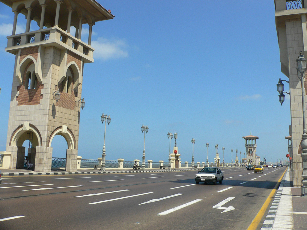 Stanley Bridge, Alexandria, Egypt.